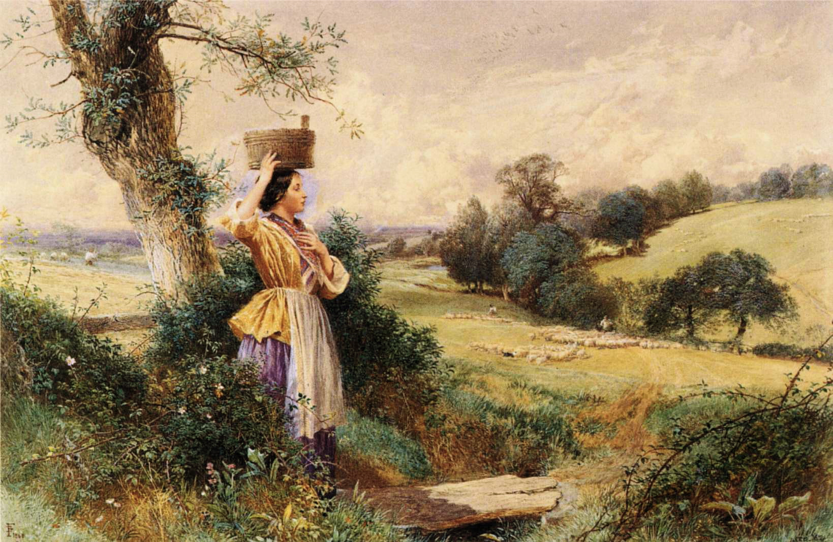 Dimensions and material of painting: Watercolor, 11-3/4 x 17-1/2 in